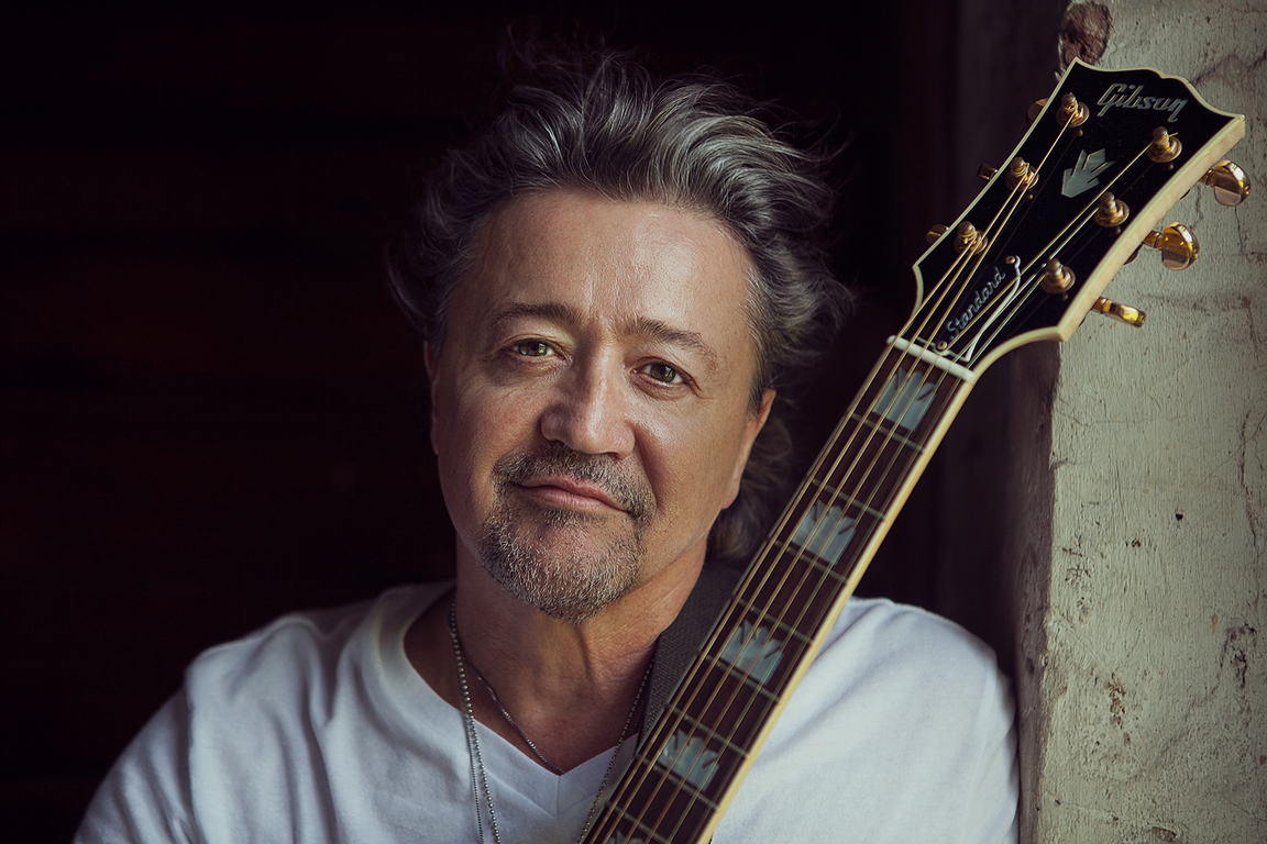 Mark Collie at his home in Fort Worth, Texas